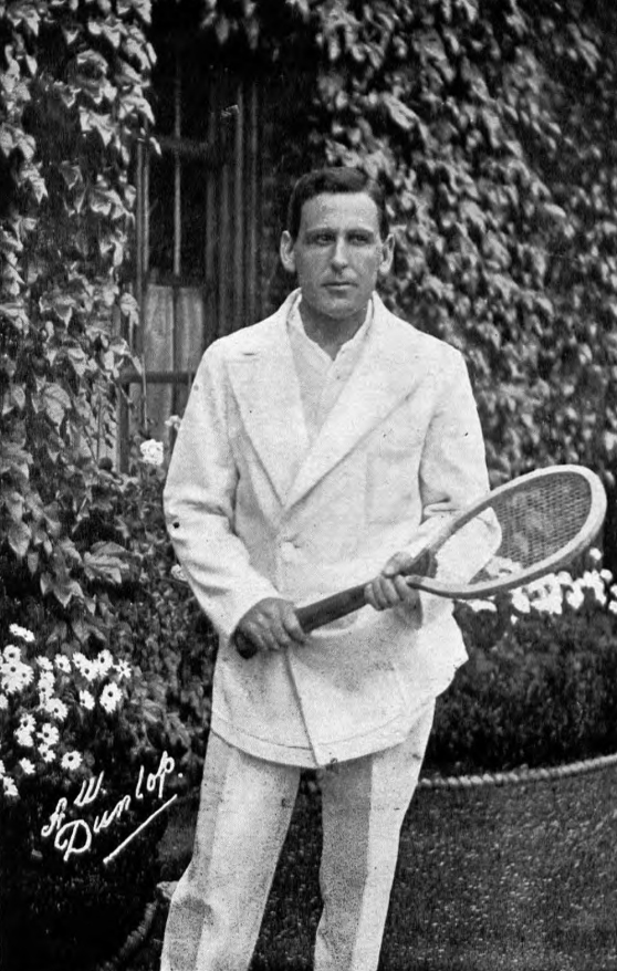 Australian tennis player Alfred W. Dunlop (12 January 1875 – 7 April 1933).